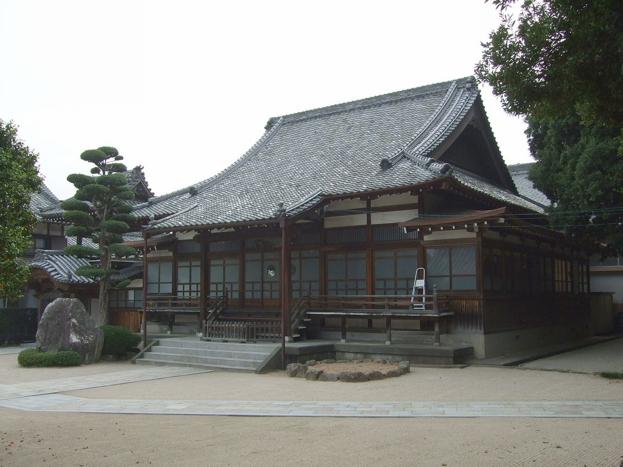 Koshuzenji Temple(Anakannon), Terazuka, Minami Ward, Fukuoka City, Fukuoka, Japan.